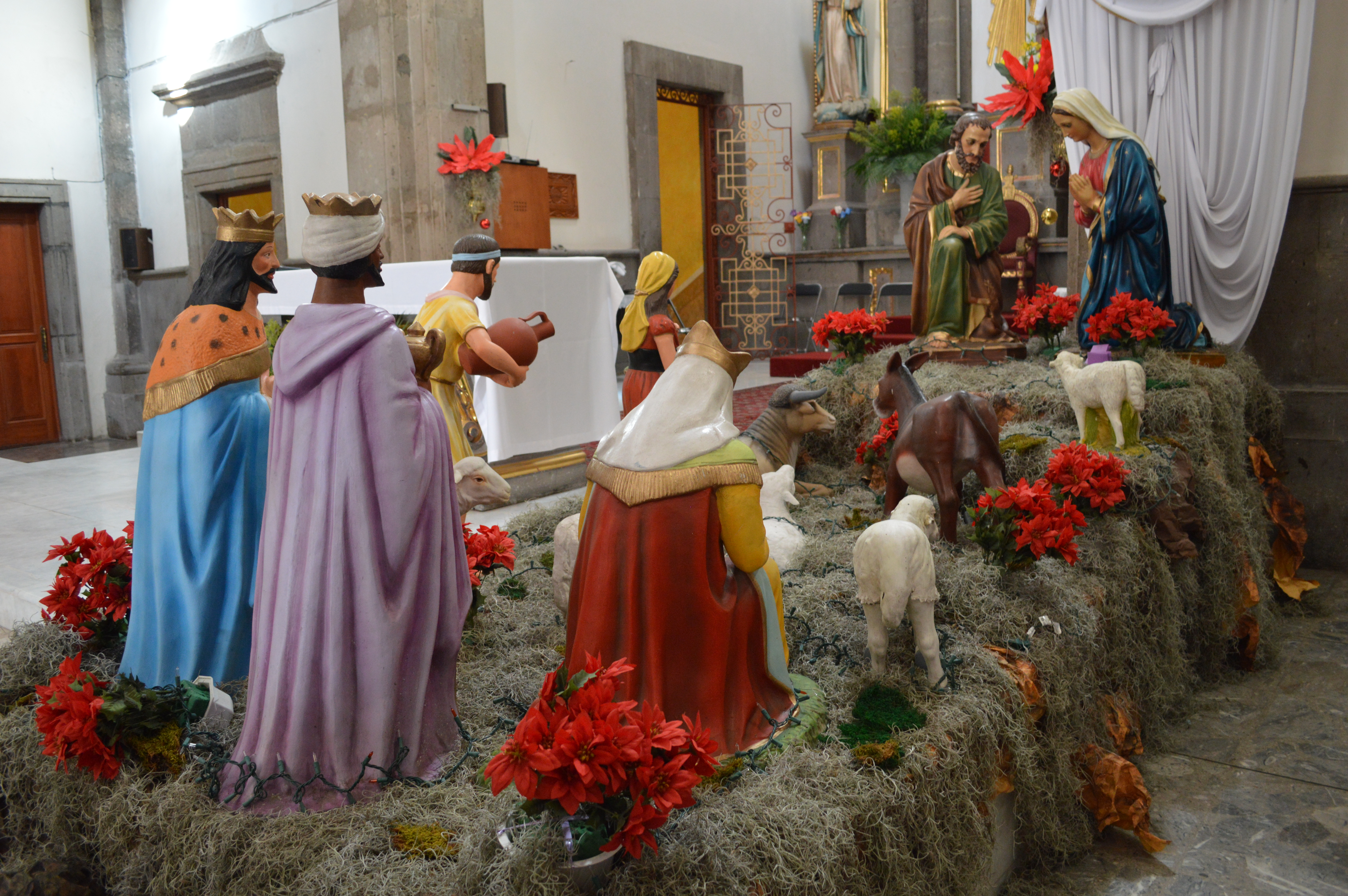 Nativity scene at the San Pablo Parish church in Tlaquepaque, Jalisco, Mexico